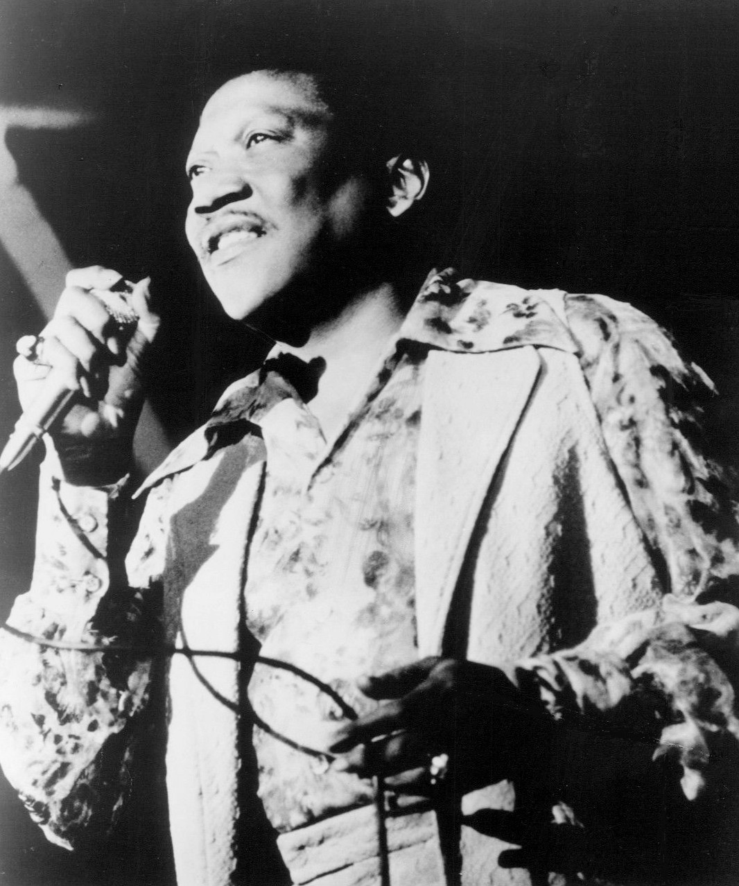 Photo of blues singer Bobby "Blue" Bland.